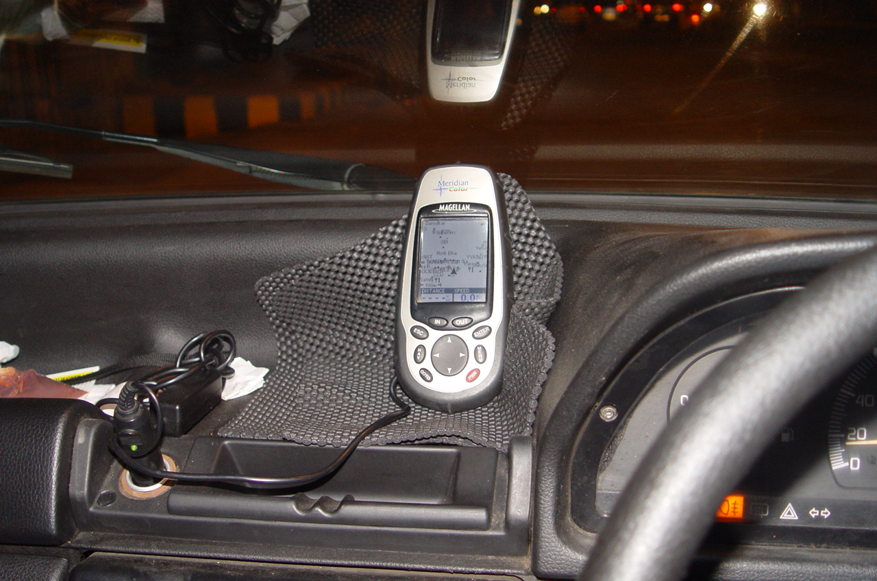 A GPS receiver used to navigate around city roads.